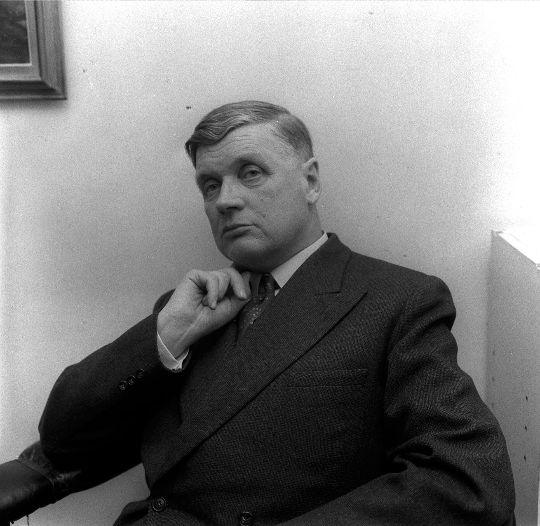 Photograph of the Finnish composer Uuno Klami (1900–1961).